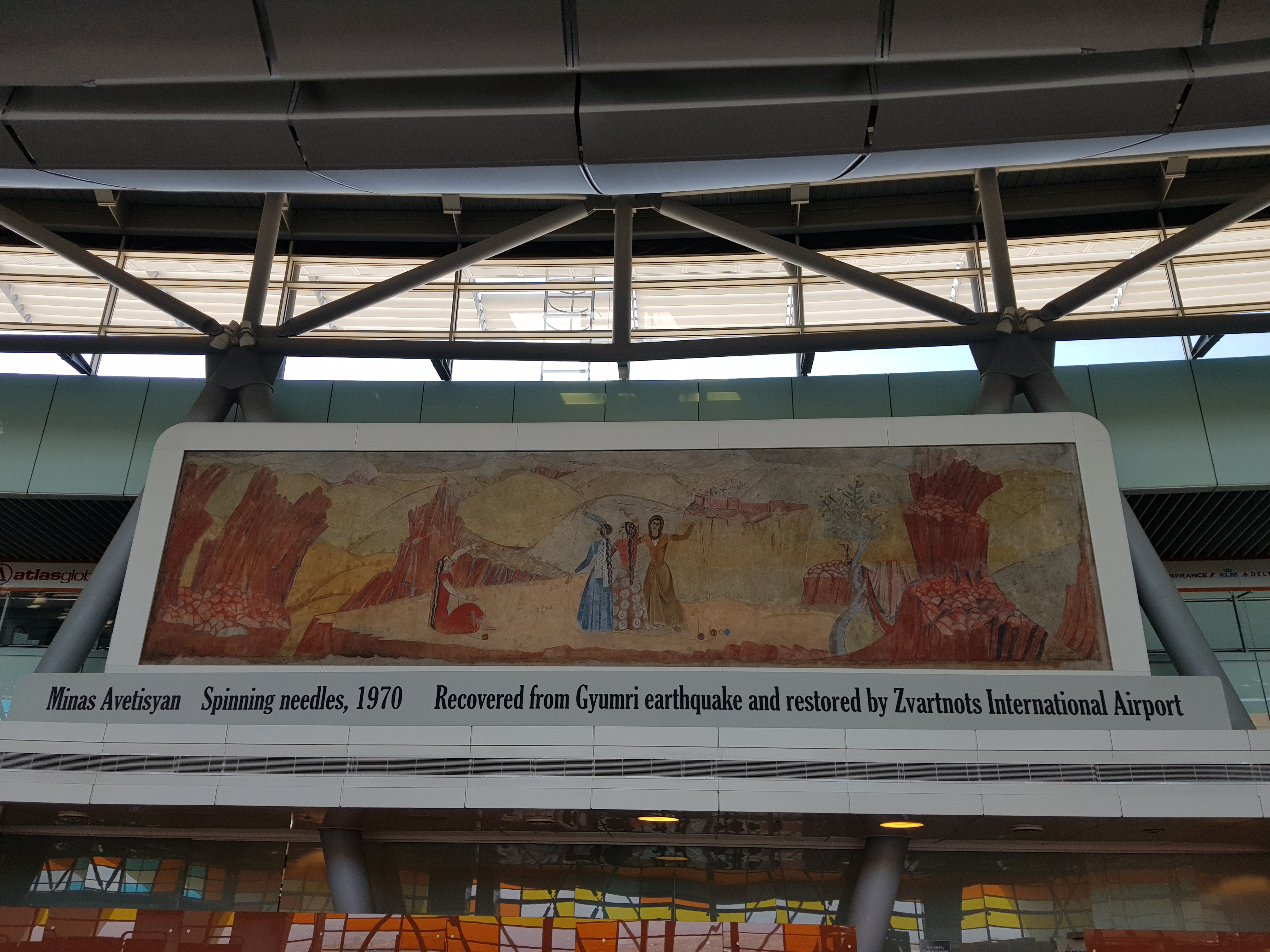 Minas Avetisyan's "Spinning Needles" at Zvartnots International Airport, Armenia